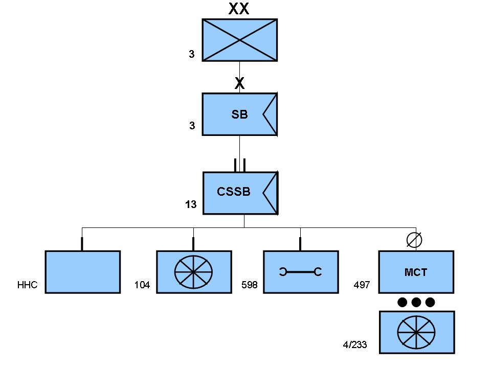 Task Organization, 13th Combat Sustainment Support Battalion United States Army